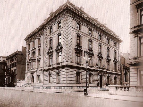 George J. Gould residence at Fifth Avenue in New York.